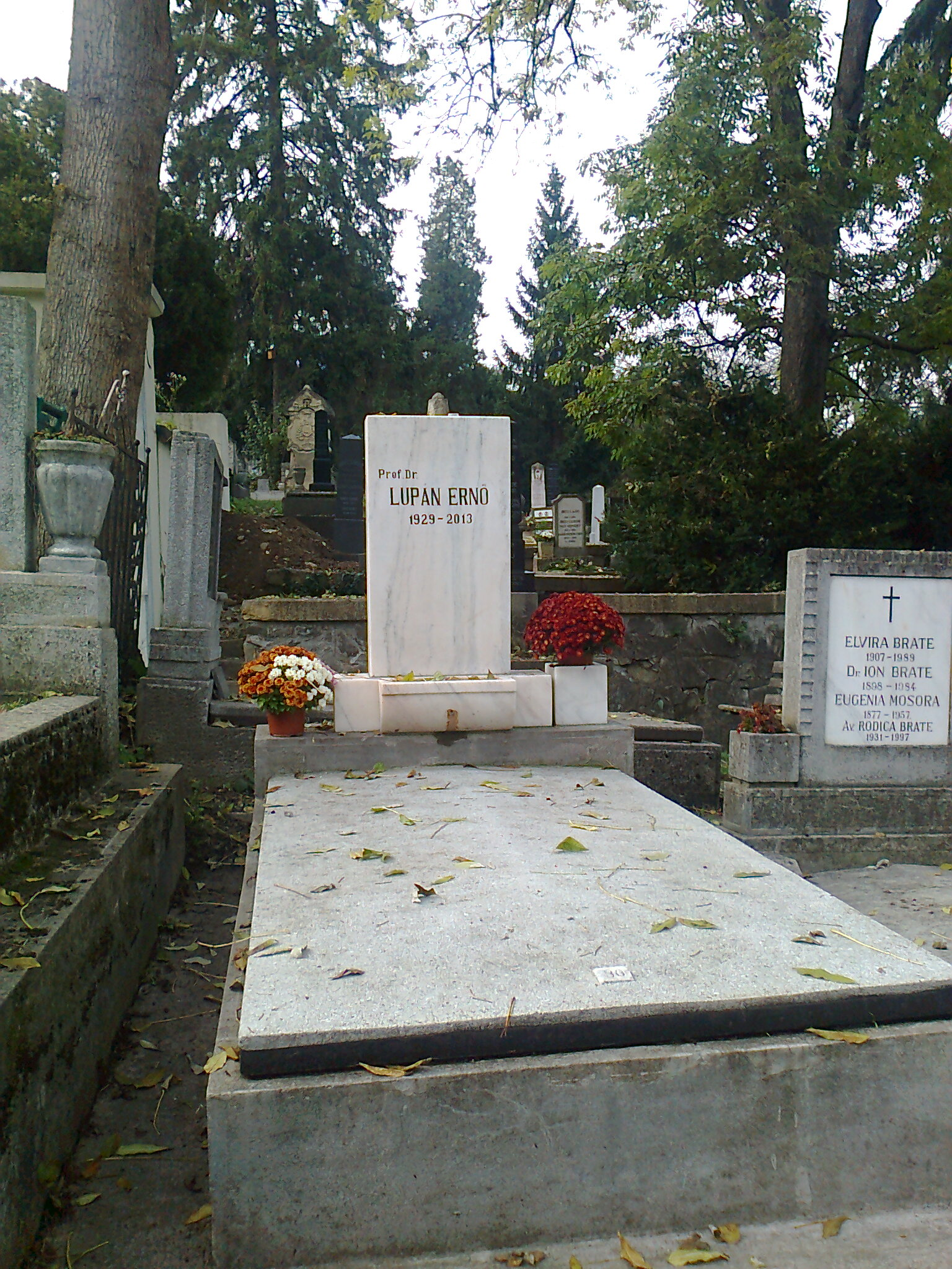 Ernő Lupán's thomb (Kolozsvár/Cluj, Romania)